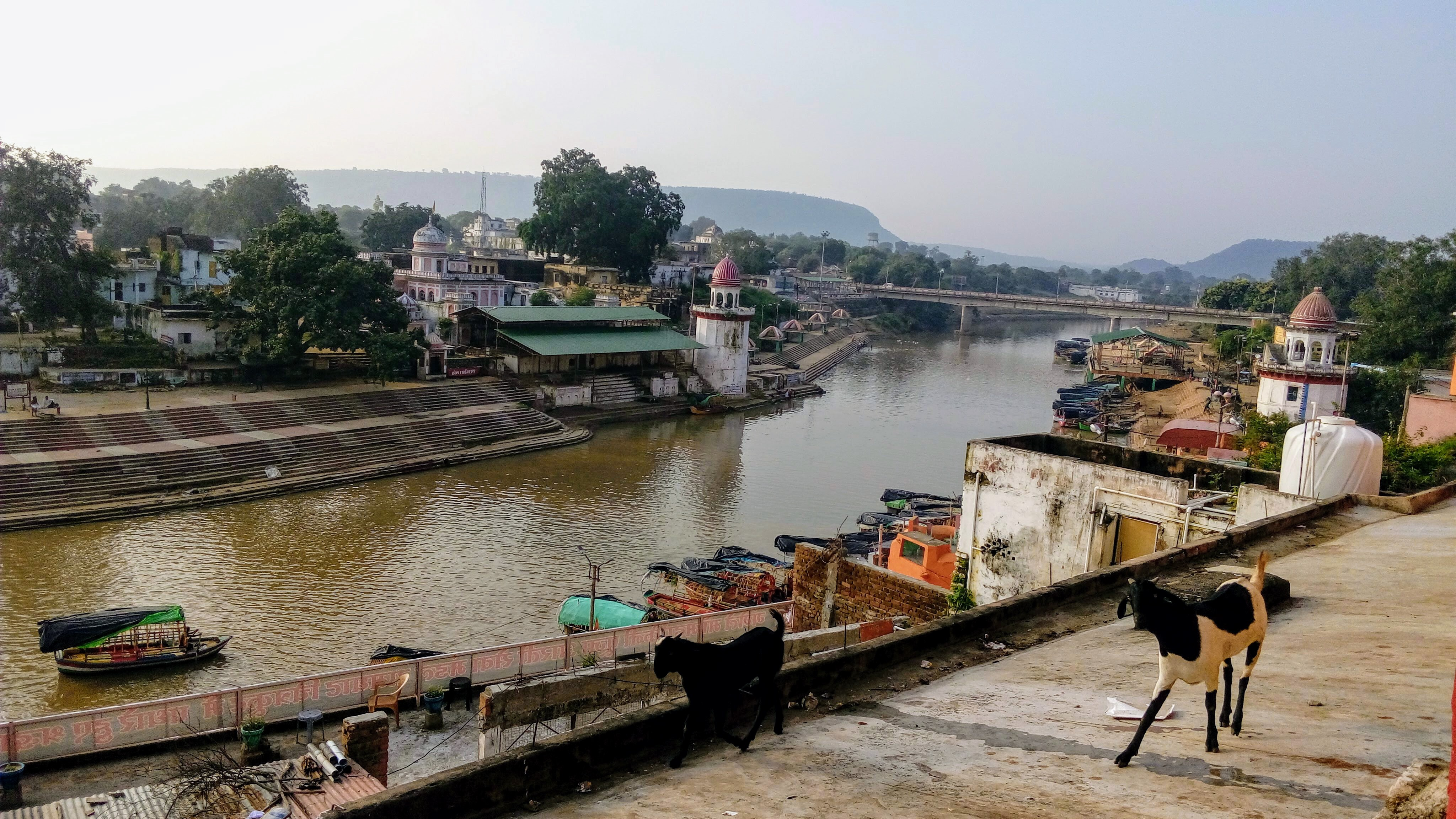 I captured this pic at ramghat, Chitrakoot in the evening.